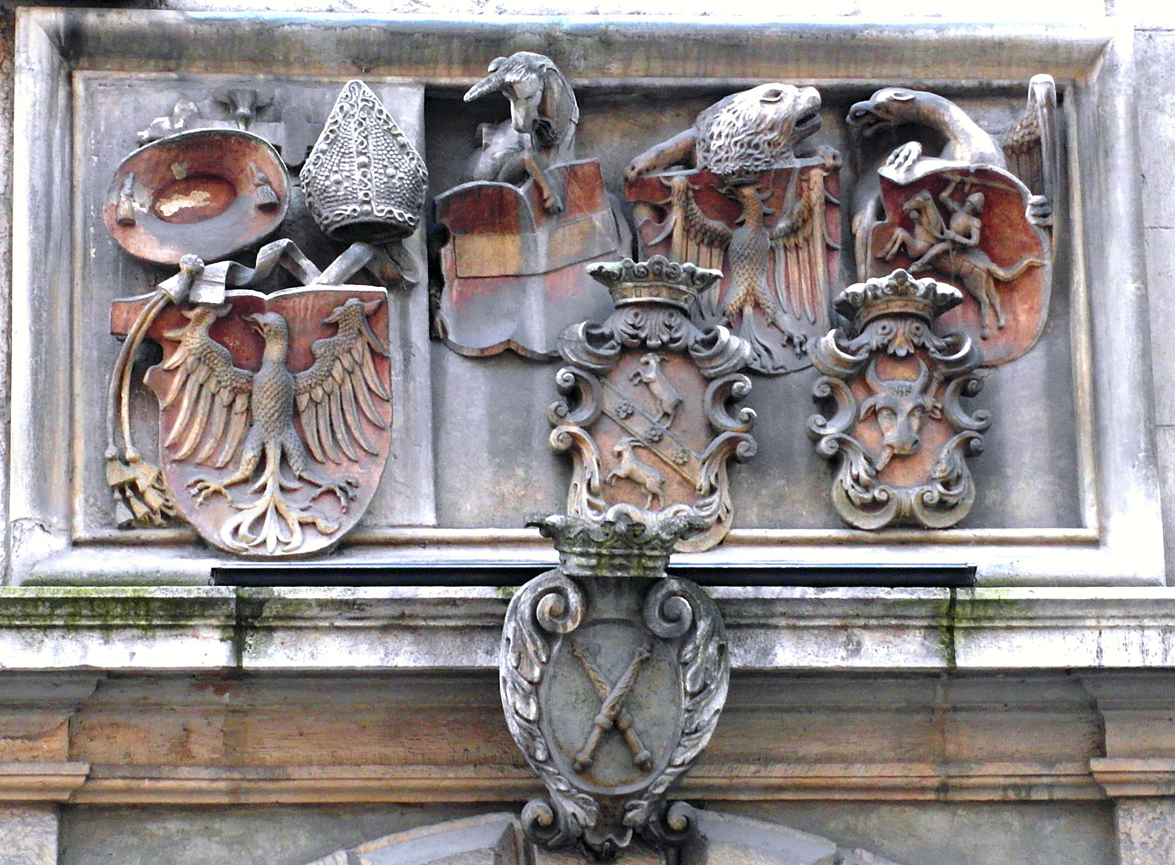 Heraldic frieze in the Jagiellonian University in Kraków, Poland